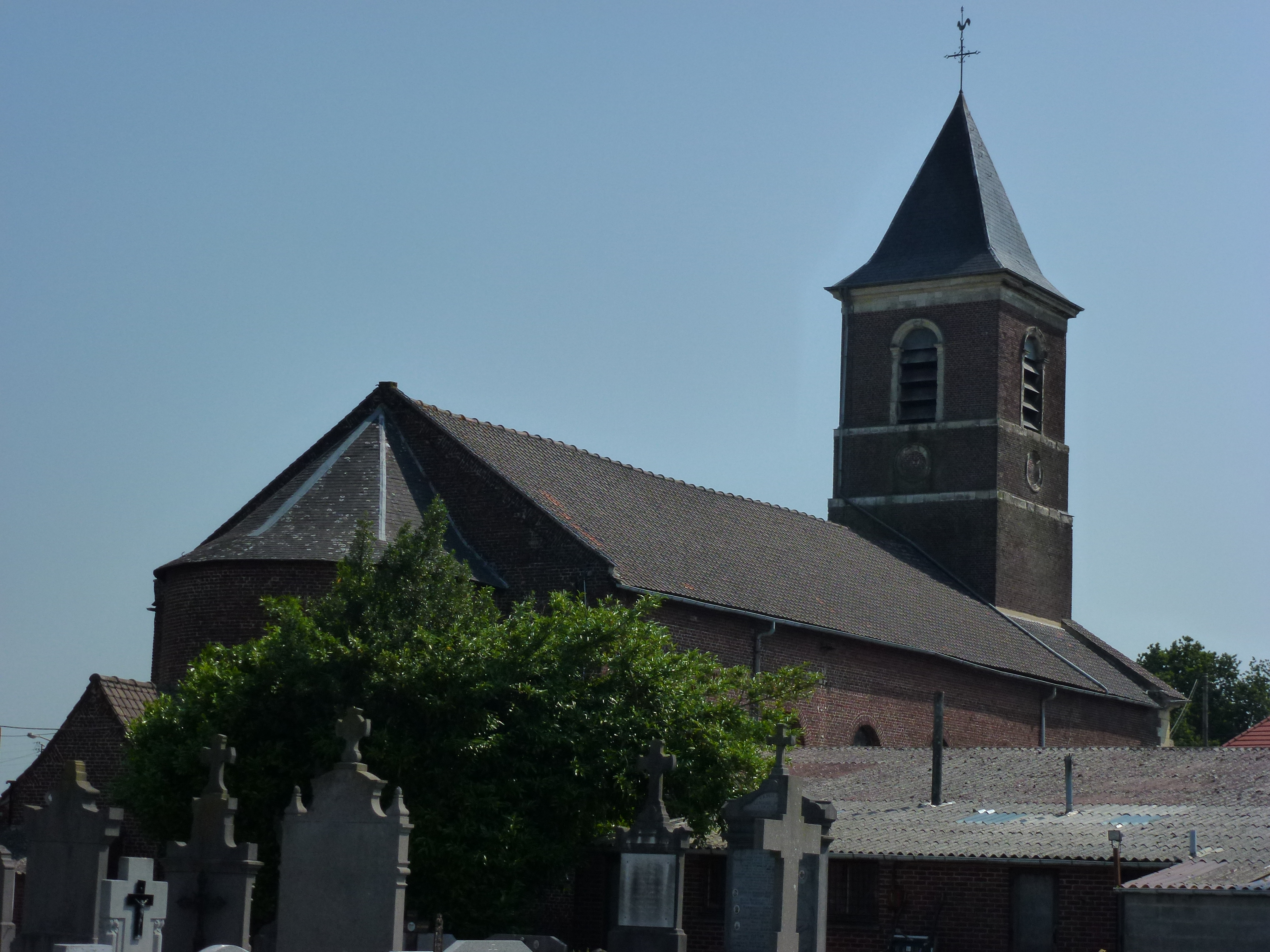 Faumont (Nord, Fr) église